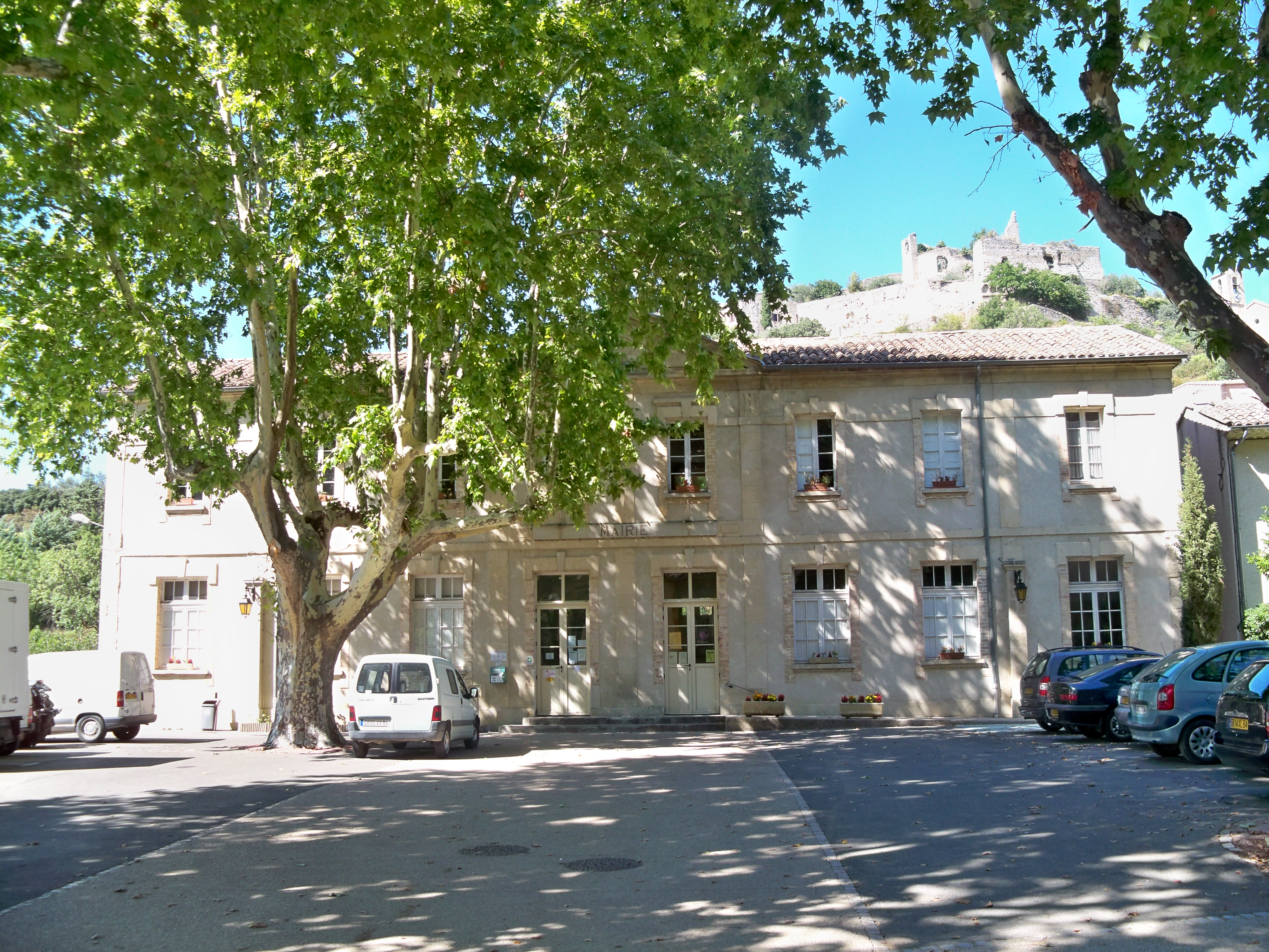 Town hall of Entrechaux, Vaucluse, France